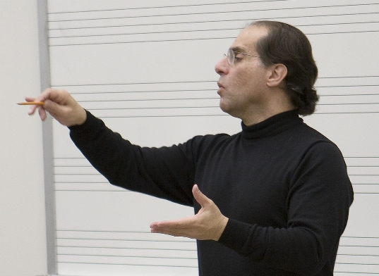 James Meena conducting a December 2007 music rehearsal of the Opera Carolina Chorus for the company's January 2008 production of Aida. The rehearsal took place in the high school choral music room of Charlotte Country Day School.